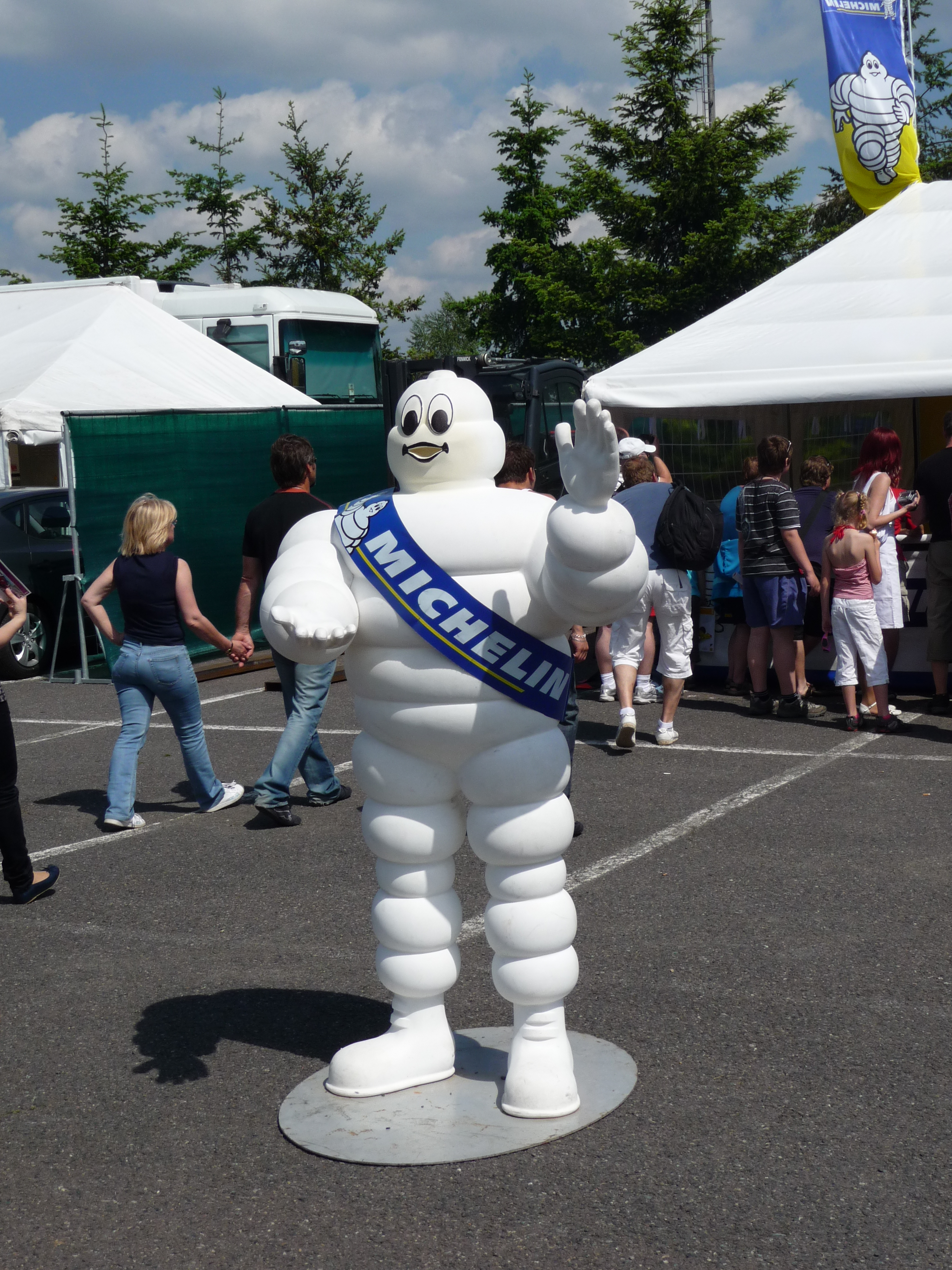 Michelin mascot, 2010 Brno World Series by Renault